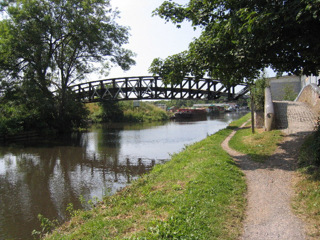 Cowley Peachy Junction, Grand Union Canal, Cowley. (Even the viewpoint is outside of Yiewsley, looking North from about 20m North of the River Pinn)